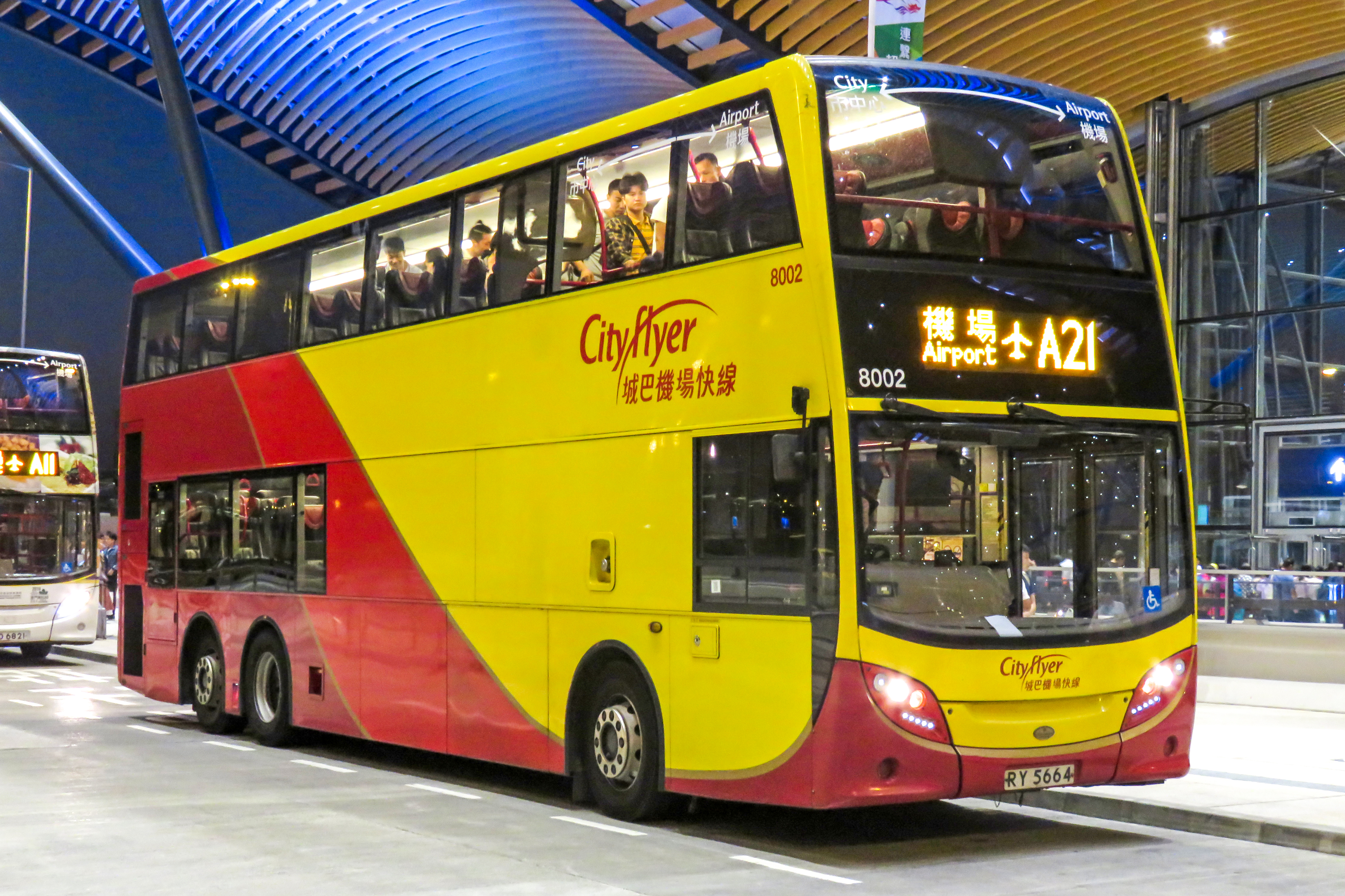 Plenty of room for advertising.